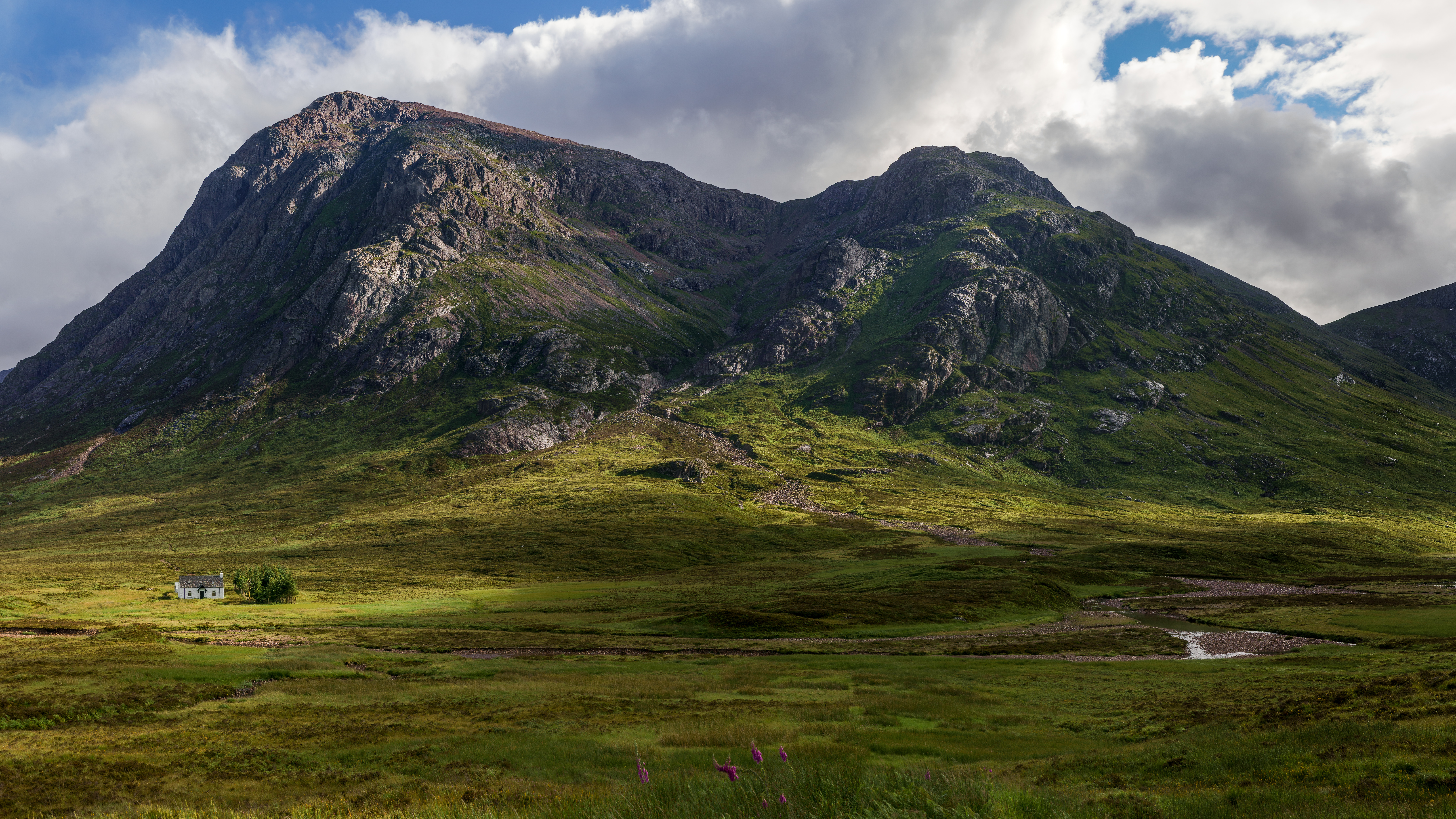 Buachaille Etive Mòr viewed from the A82 which runs through Glen Coe, with the white cottage of Lagangarbh next to the river Coupall. The cottage, converted from a crofter's home, is used as a Scottish Mountaineering Club hut, and can accommodate 20 people, with 10 more in a barn behind. The trees to the west were planted to provide shelter from the wind. The main mountain peak on the left is Stob Dearg at 1022m.